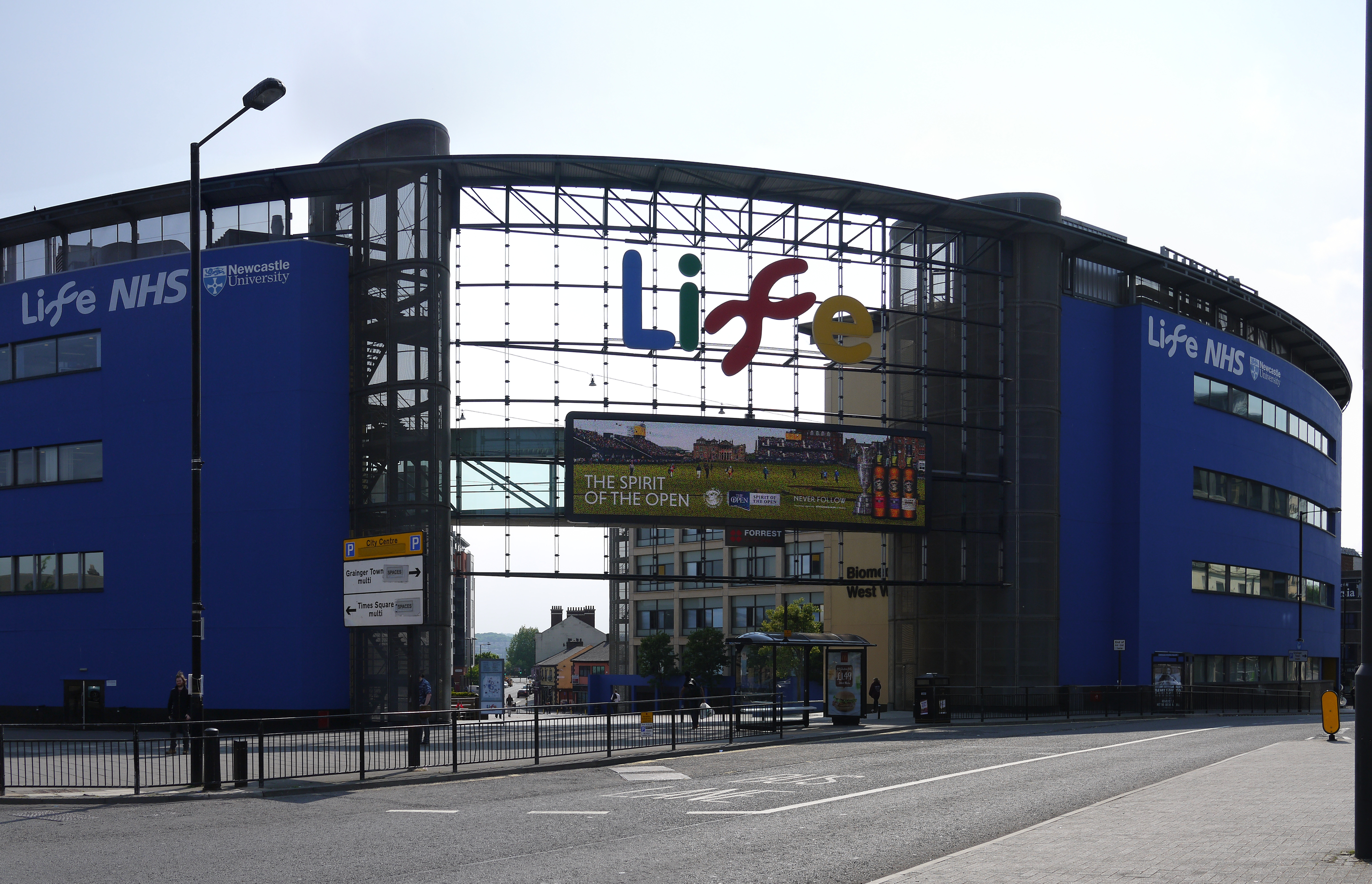 Centre for Life entrance, Newcastle